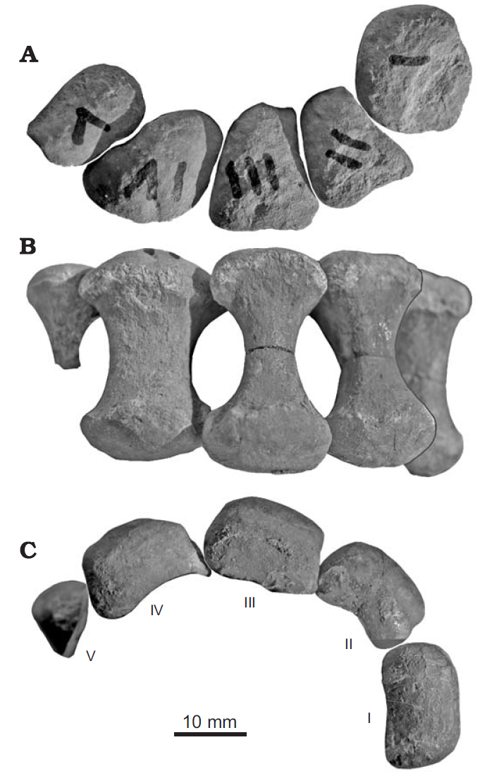 Ankylosaurid dinosaurs Pinacosaurus (MPC 100/1358) from the Alagteeg Formation (Upper Cretaceous) of Alag Teeg, Mongolia. Right metacarpus in proximal ( A ), anterior ( B ), and distal ( C ) views. Fifth metacar − pal is incomplete distally. Right: Outline of left metacarpus and proximal phalanges in proximal ( A ) and anterior ( B ) views.